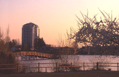 Partial Abbotsford skyline from Mill Lake